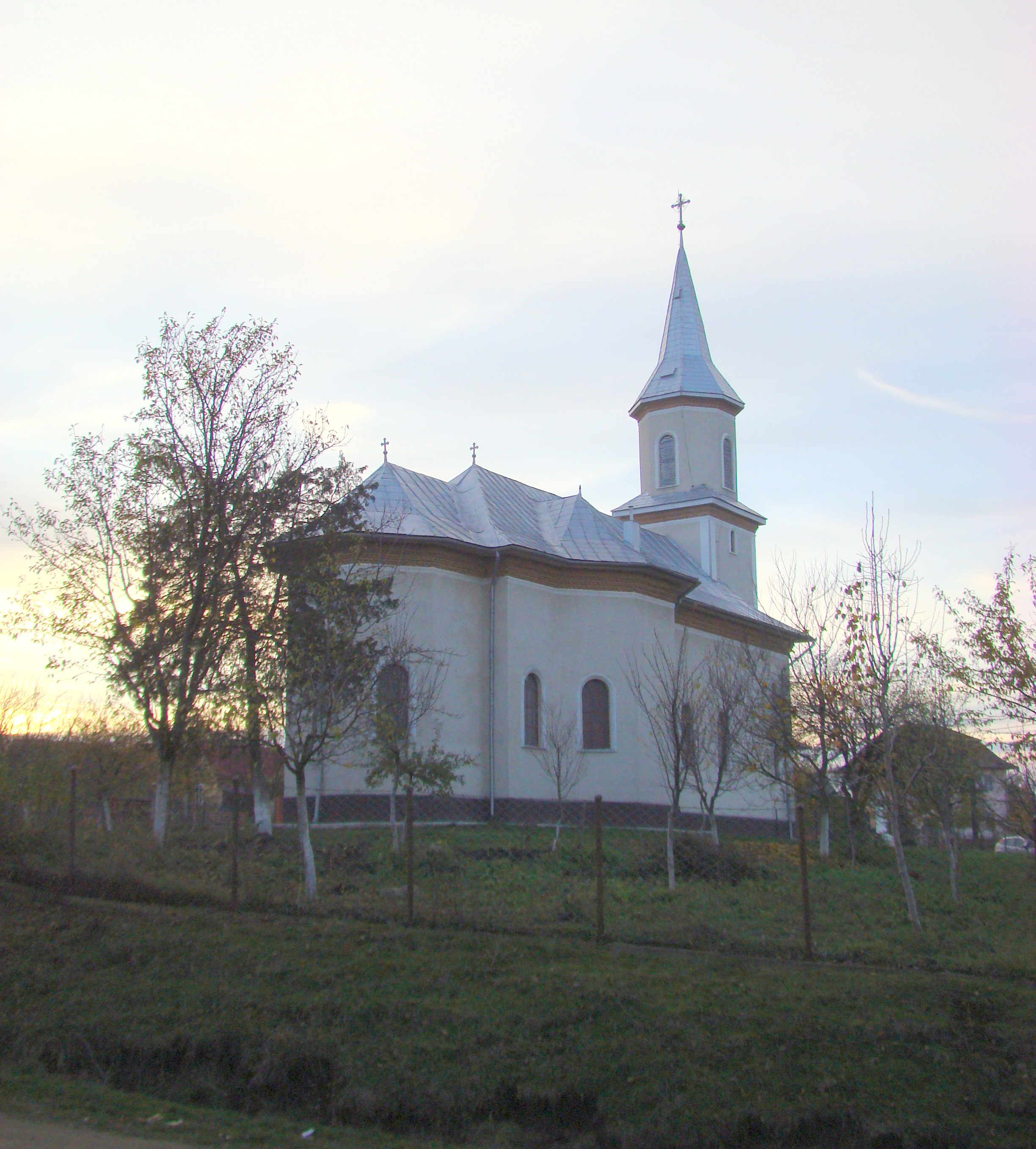 Frata, Cluj county, Romania